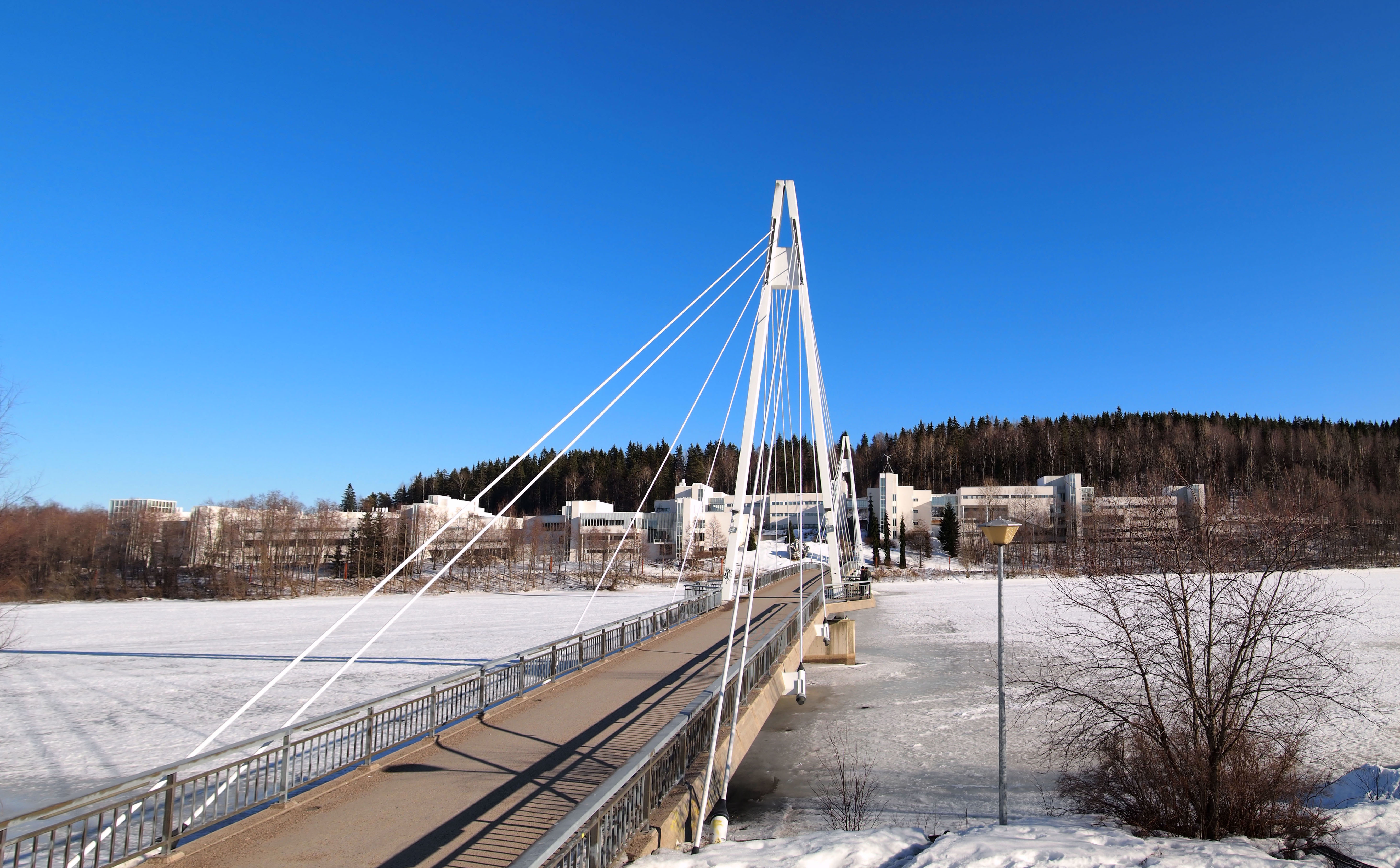 Ylistö Bridge and Ylistö Campus. View from Mattilanniemi Campus over the frozen lake Jyväsjärvi.